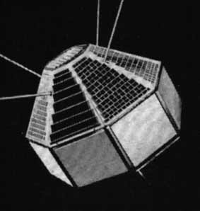 Explorer 45 / S-Cubed A / SSS